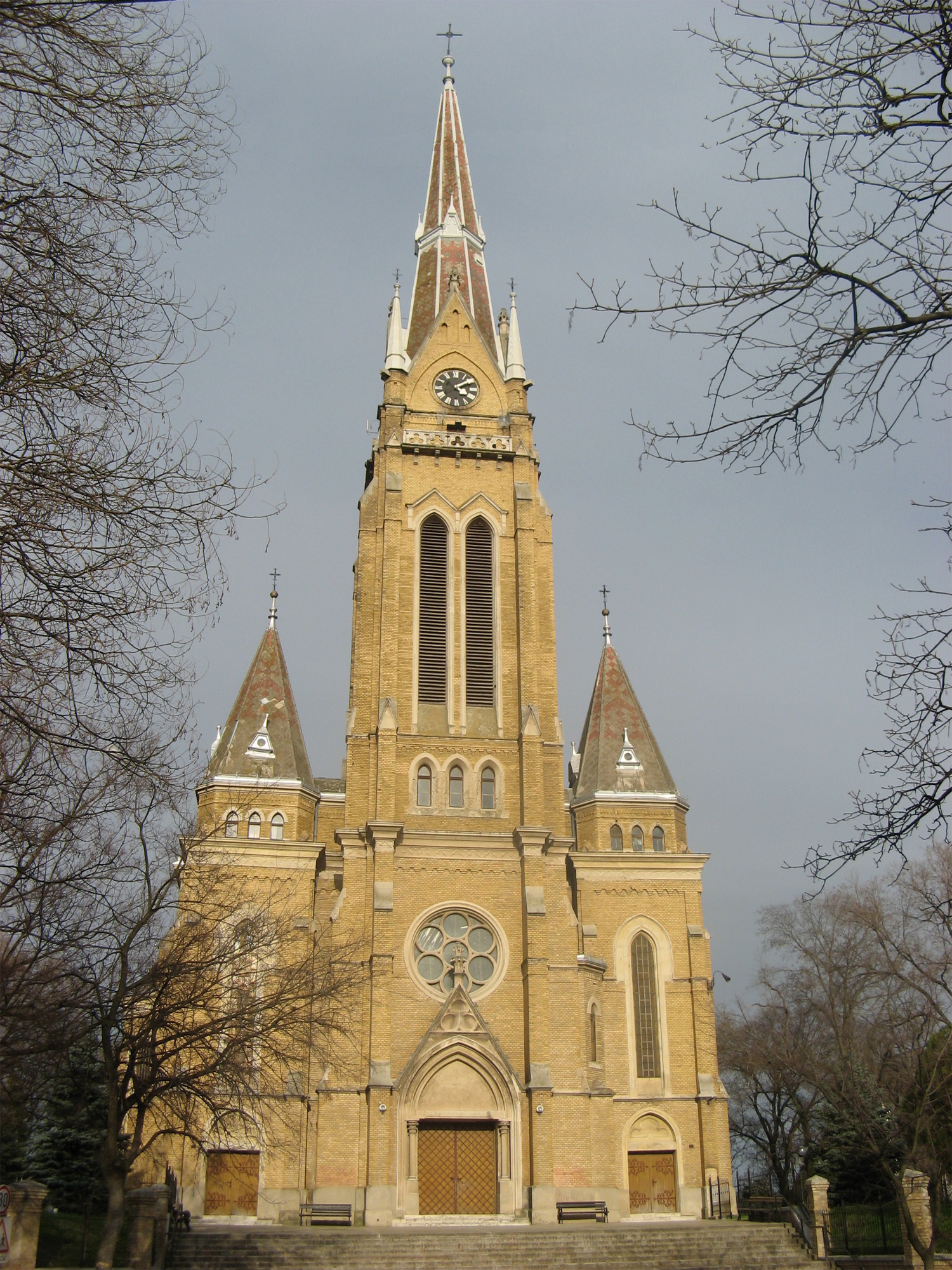 Church in Topolya named: Sarlós Boldogasszony. Built in 1904-1906. The tower's overall height is 72.70m